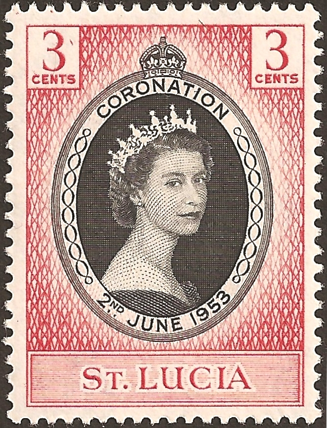 Stamp of Saint Lucia issued 1953 for the coronation of Queen Elizabeth II.